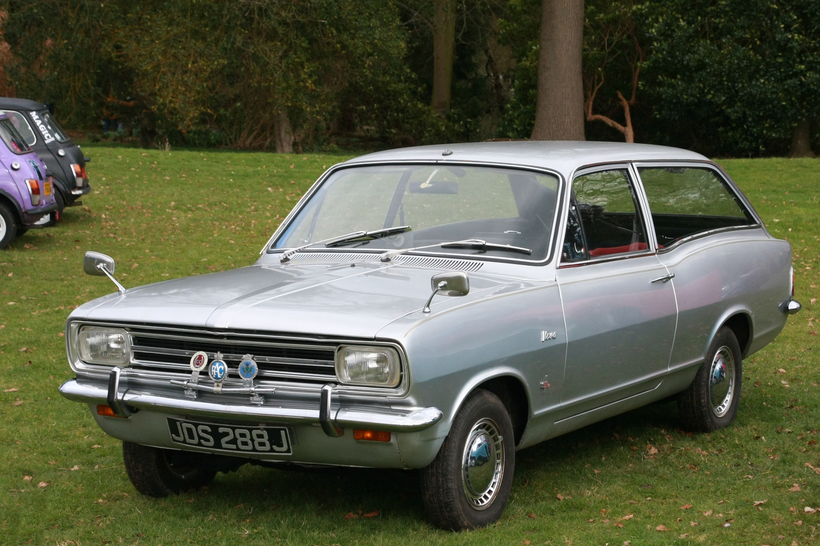 Vauxhall Viva SL estate (1970) at Weston Park (2016)